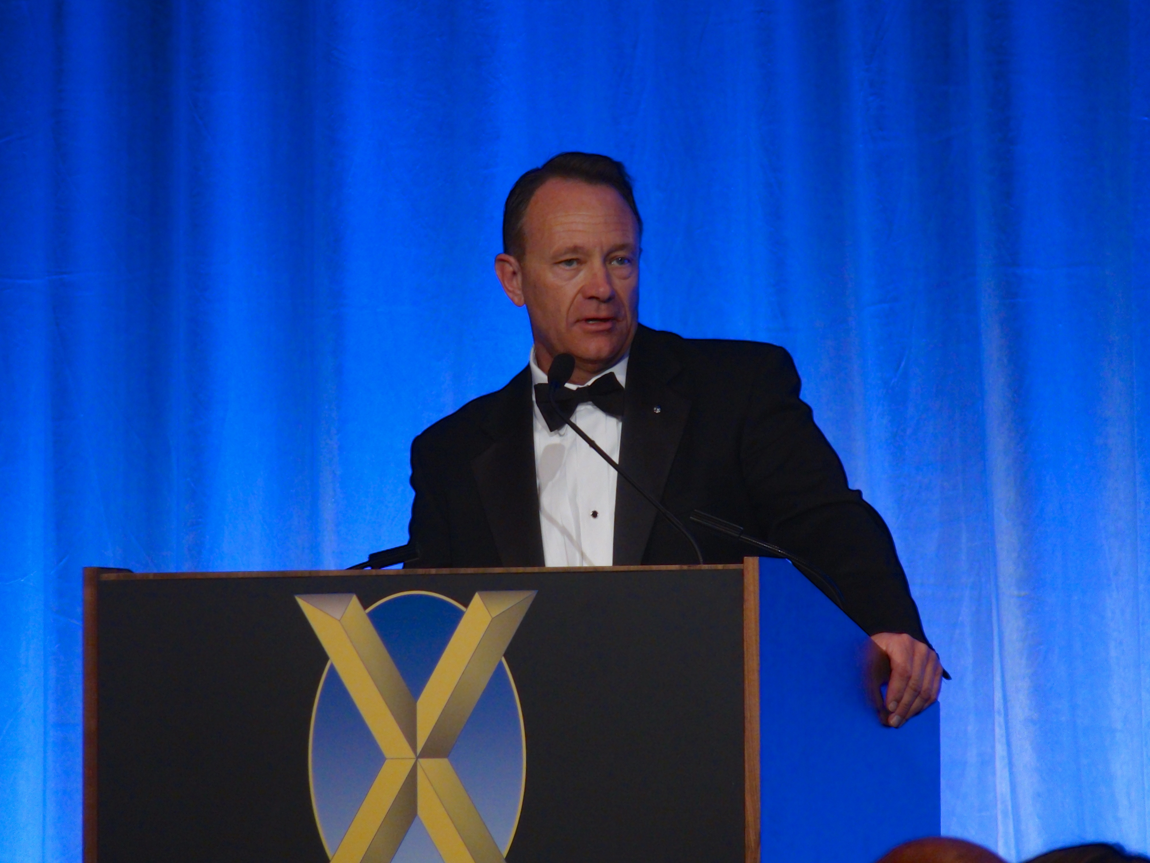 Steven Rainey, Society of Experimental Test Pilots President, addresses the attendees of the 2012 Society Annual Banquet on September 29, 2012.